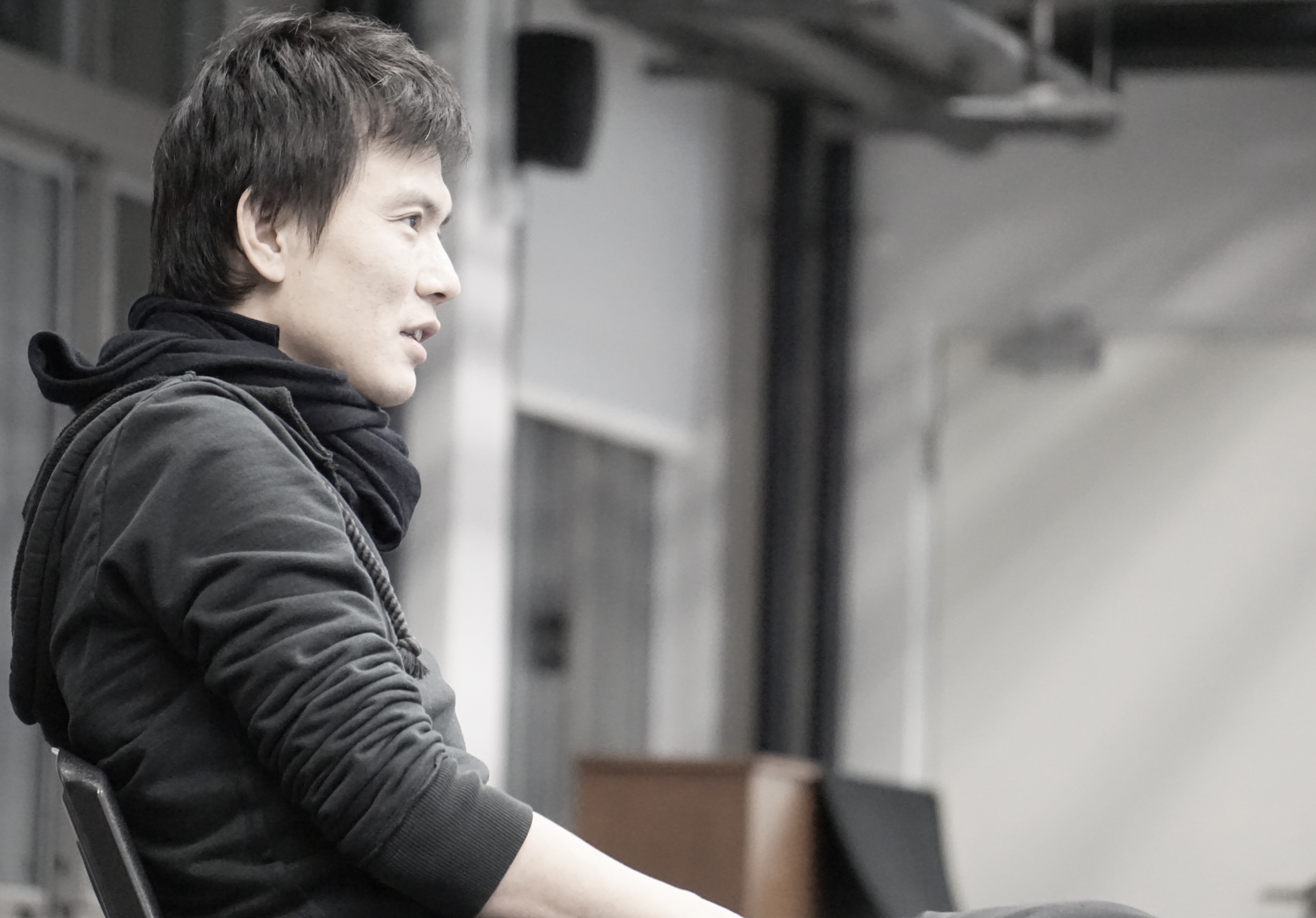 Cheng Tsung Lung